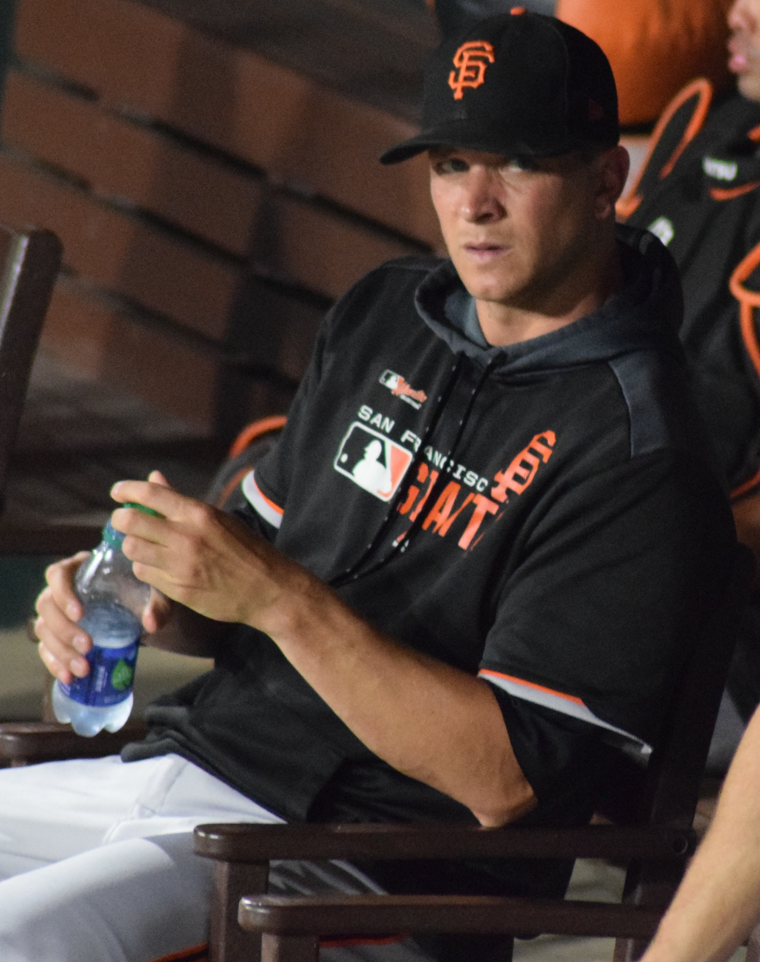 Tony Watson and Trevor Gott in the bullpen with the San Francisco Giants at Citizens Bank Park in Philadelphia in July 2019